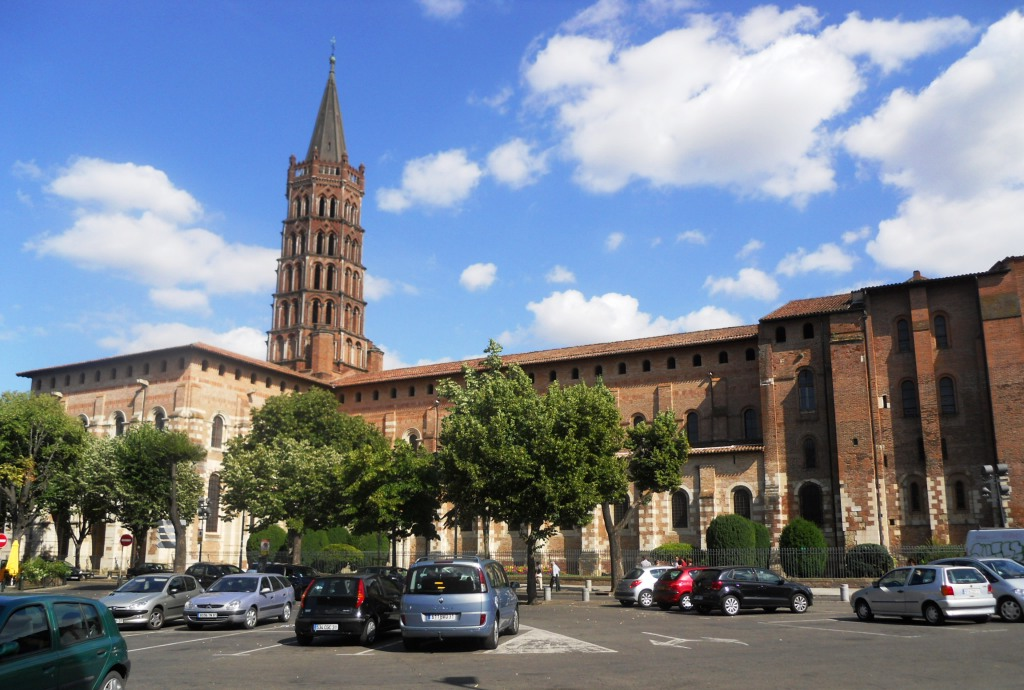 Toulouse, St Sernin from NE